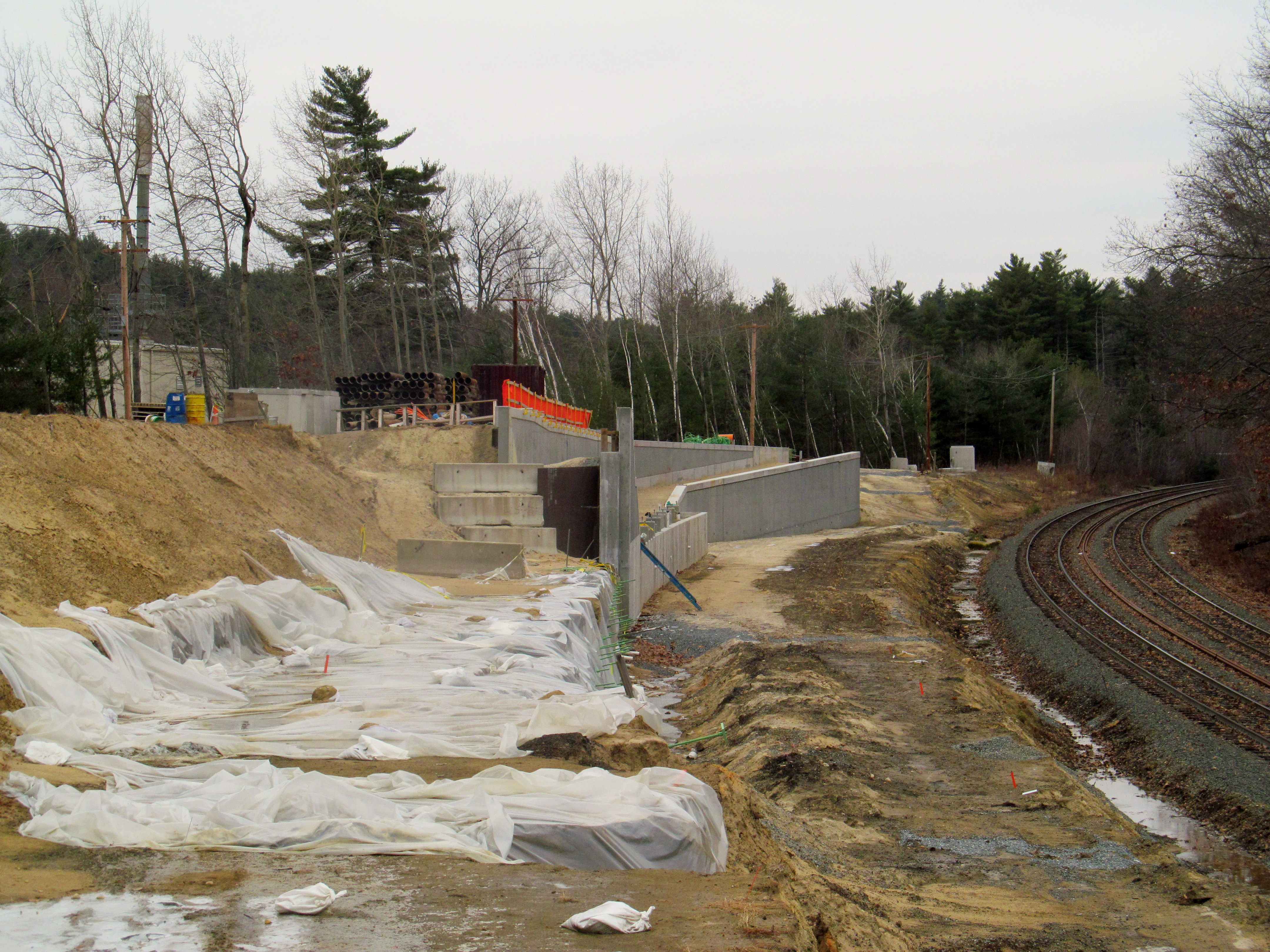 Construction progress on Wachusett station as of December 20, 2014